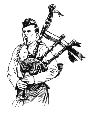 Line art drawing of a bagpiper.